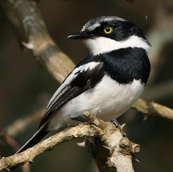 Male Chinspot Batis at Ngwenya Lodge, adjacent to Kruger National Park, South Africa.